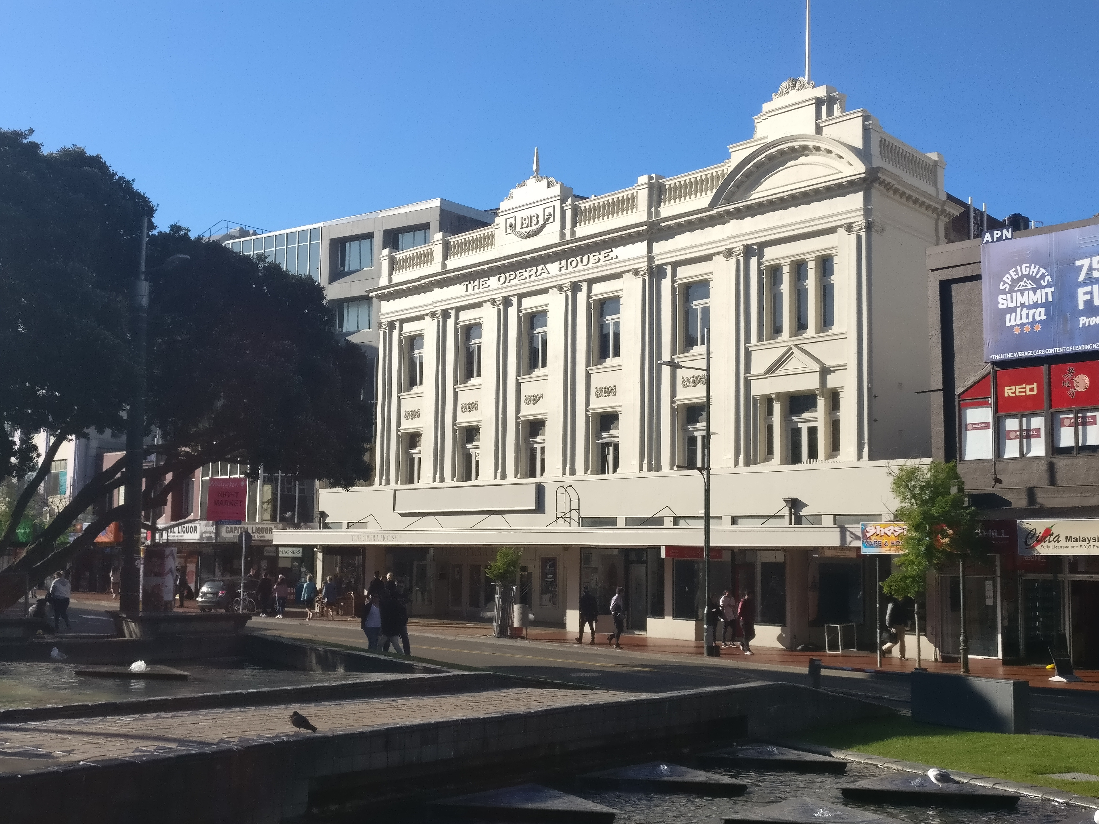 The Opera House, Wellington. Taken late afternoon, October 2018 from across Te Aro Park.